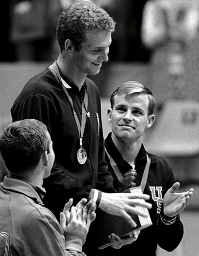 Álvaro Gaxiola, Klaus Dibiasi, Win Young, 1968 Olympics